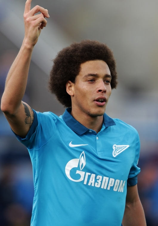 Axel Witsel